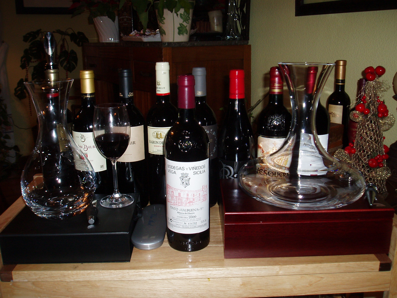 Collection of Spanish wines and decanters including the Ribera del Duero producer Vega Sicilia